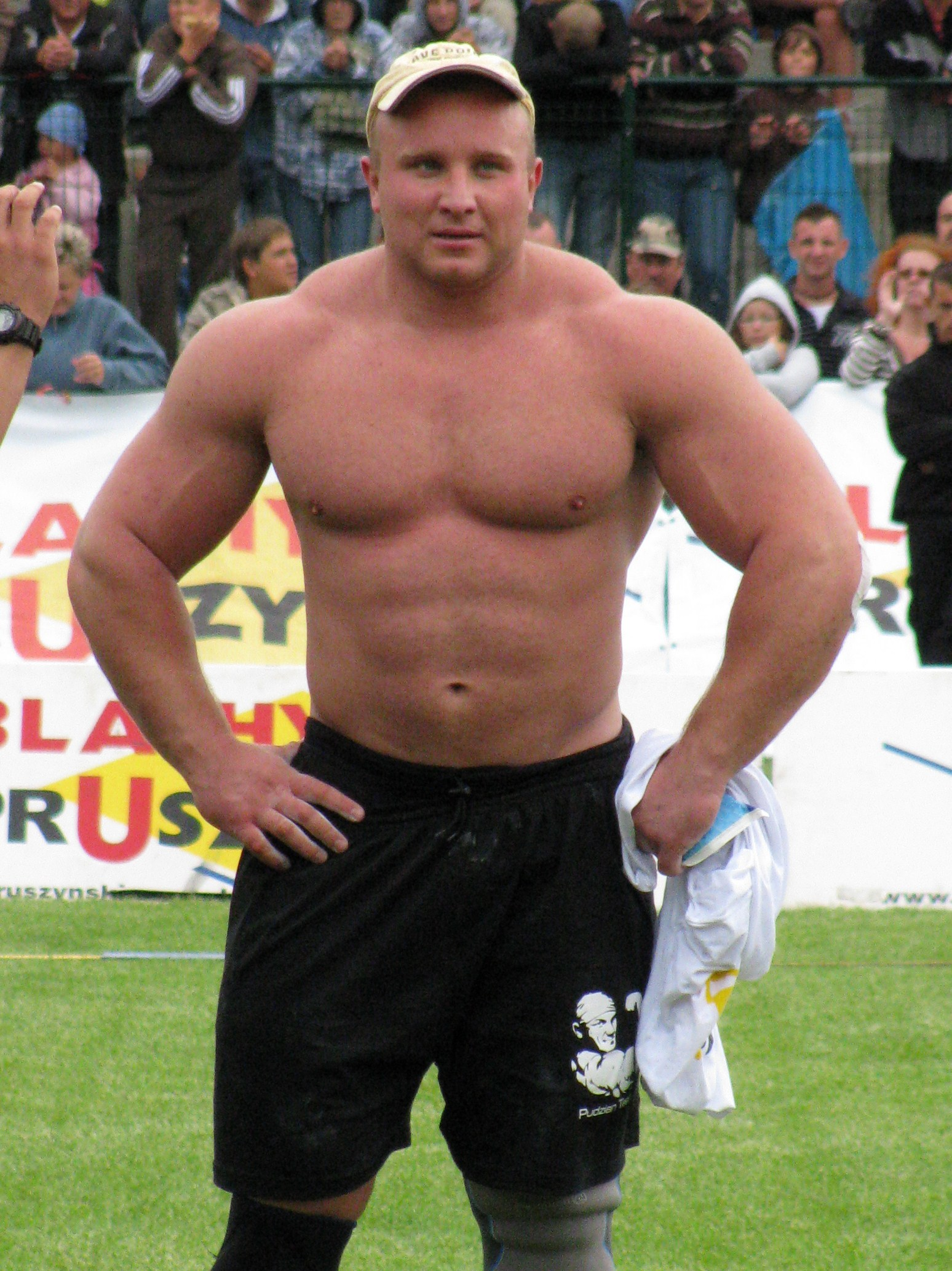 Grzegorz Szymanski - a strength athlete from Poland